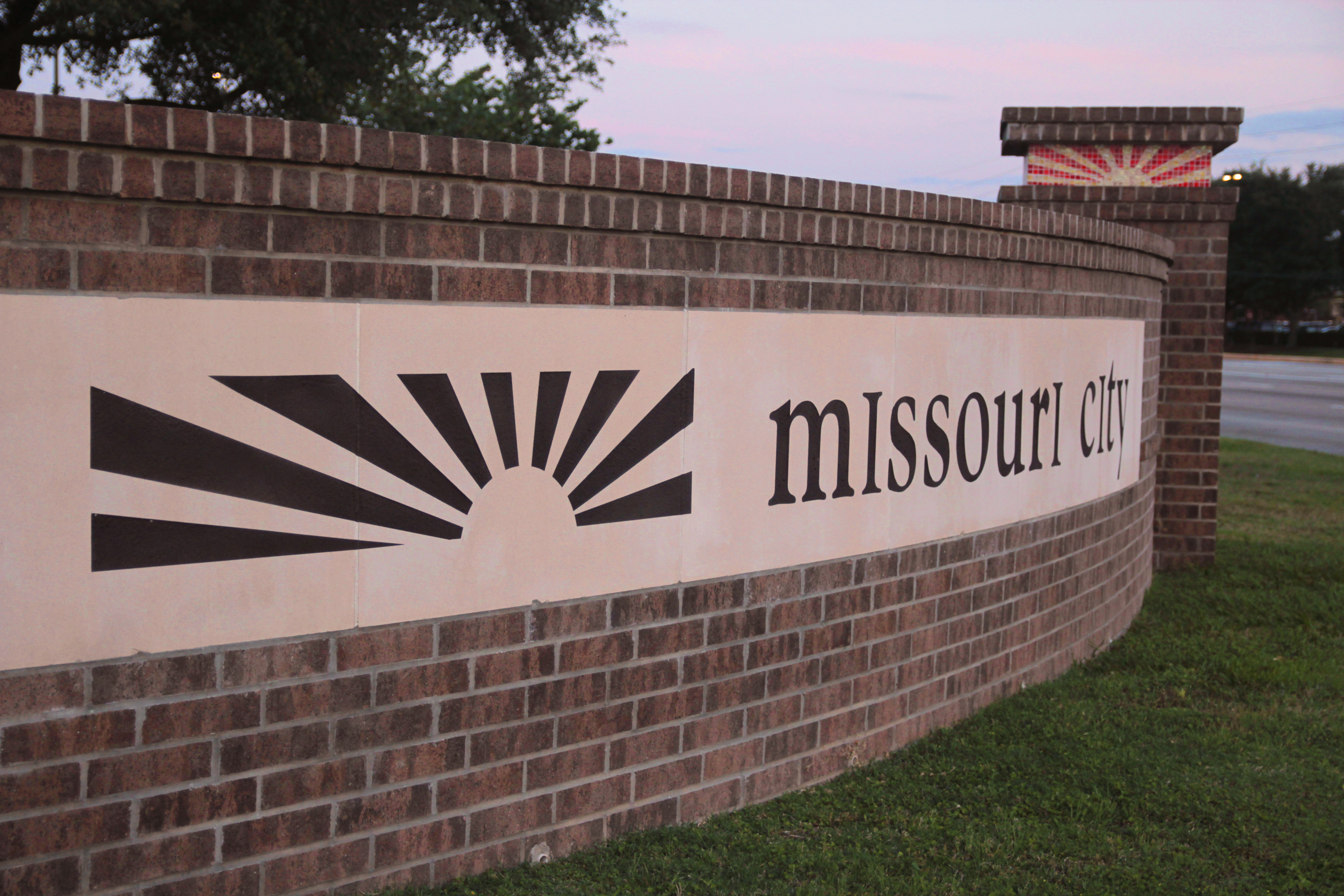 City sign for Missouri City, near one of its major intersections at Highway 6